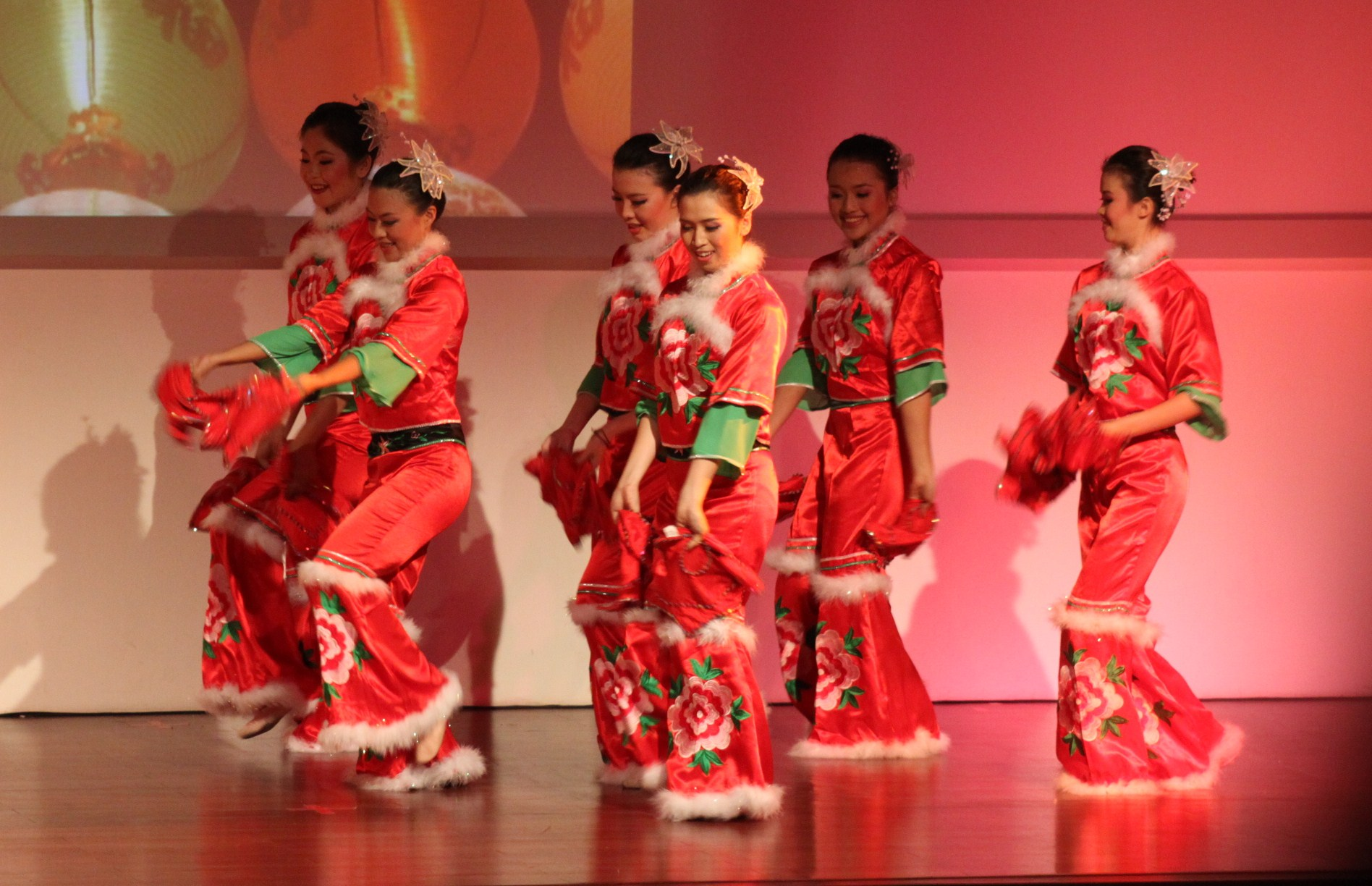 Traditional Yangge Dance by Dream Butterfly Dance Group 蝶梦舞团. Performed at Binus University's Mandarin's Day 2009: Legend of The Moon Goddess. Photo by: Gaby Andriany Ongso